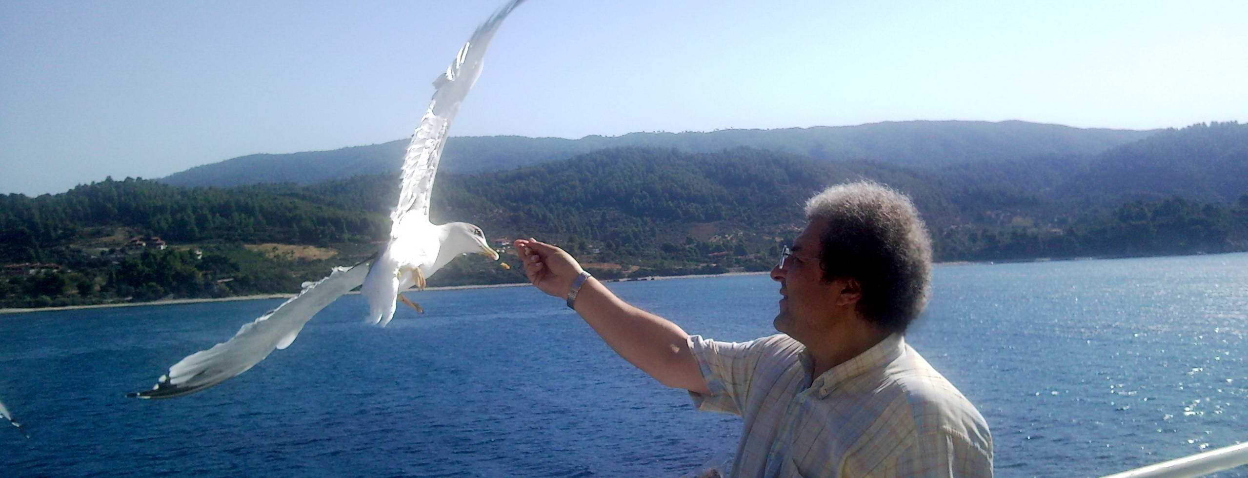 On the way to Athos Mountain 2011